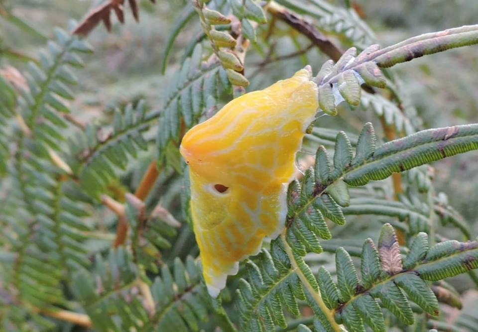 Brazilian ground slug Peltella iheringi. Photograph taken in the municipality of Cunha, São Paulo state, Brazil. 24 June 2018.